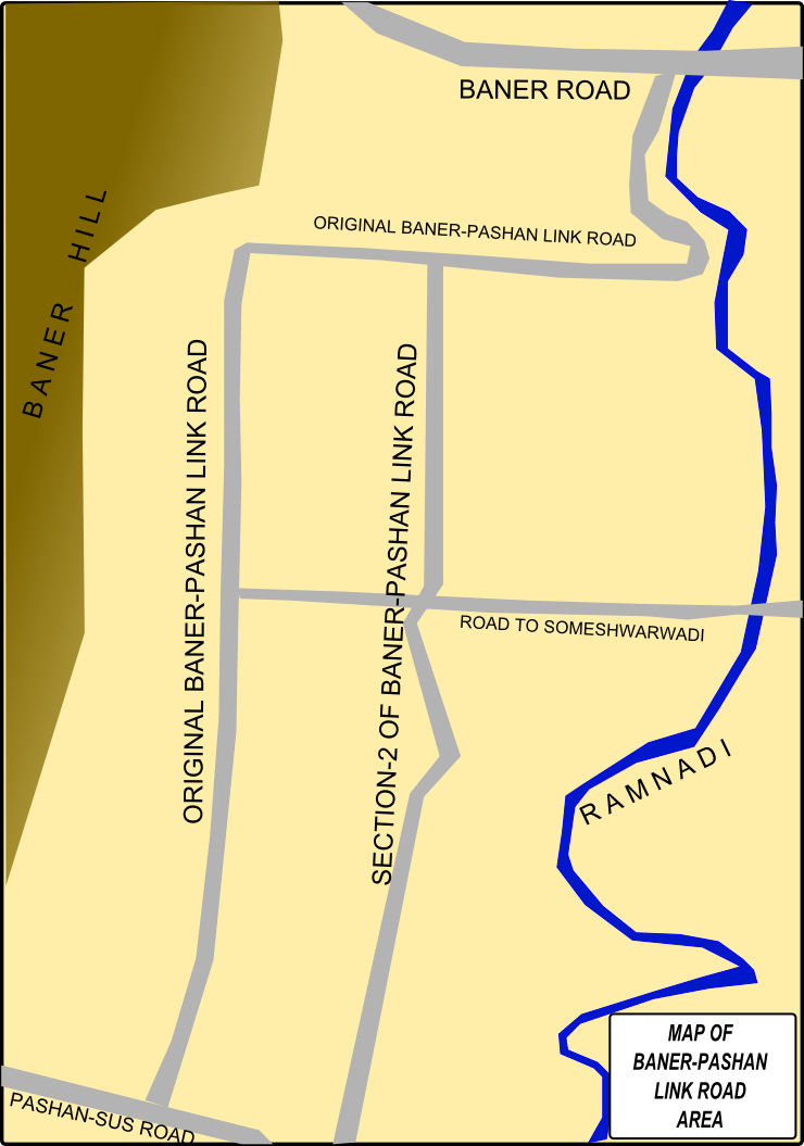 Map of Baner-Pashan Link Road